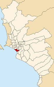 Location of the district of Miraflores in Lima, Peru Created by User:StarbucksFreak - Feb. 2005